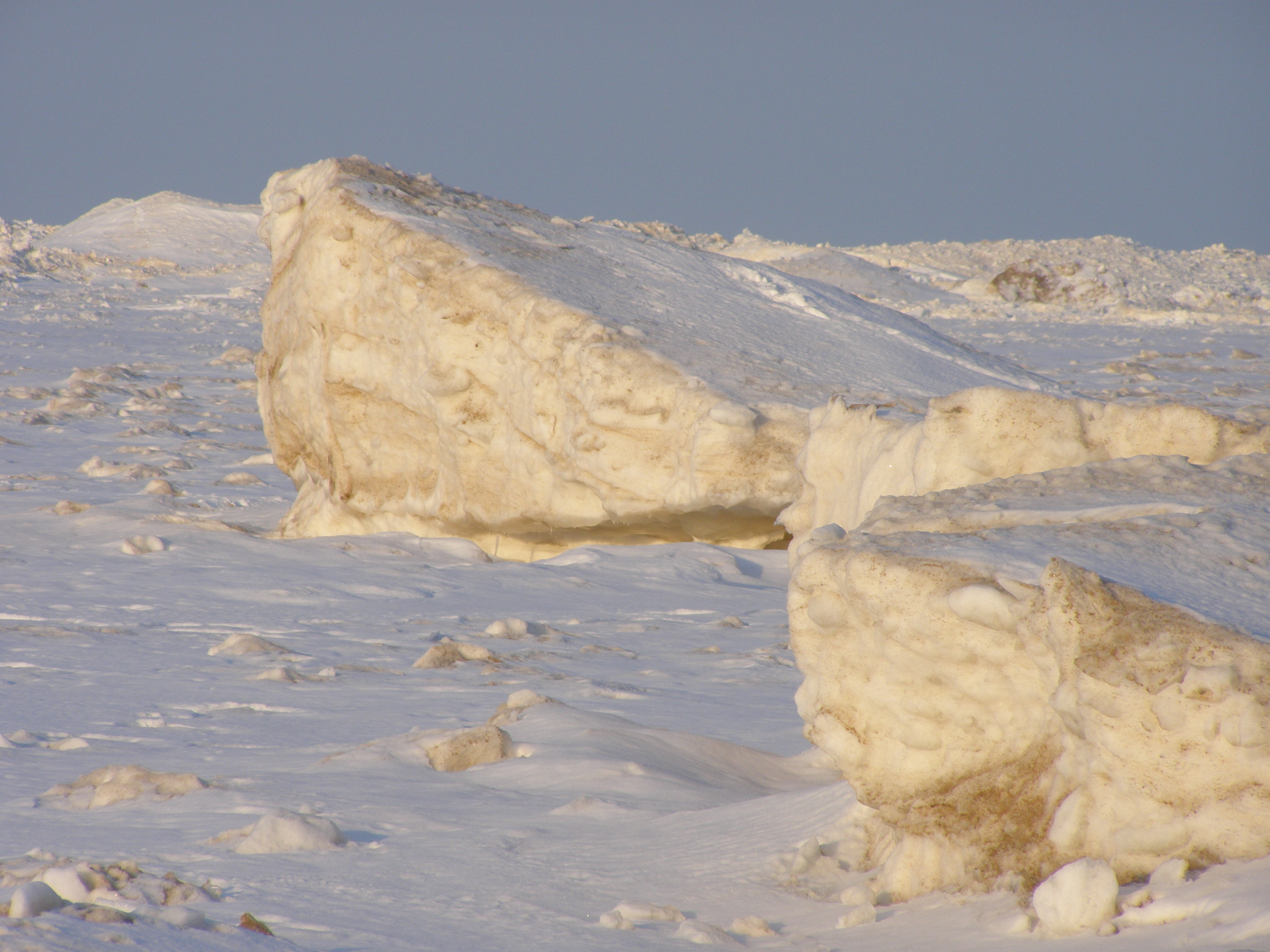 Jagged edge of an ice chunk locked into an ice shelf. This is a photo of Shelf ice along the southern Lake Michigan Shoreline.